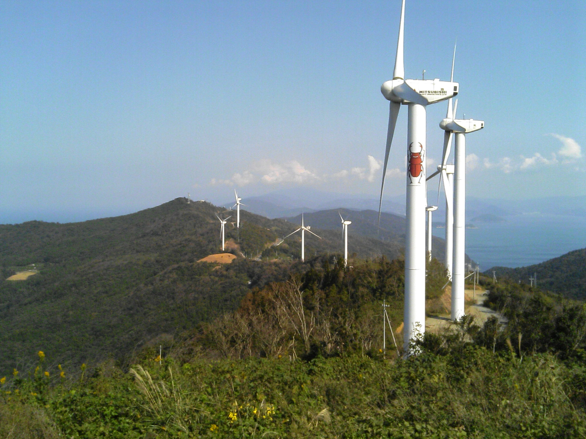 The windmills near Seto Wind Hill Park in Ikata, Ehime